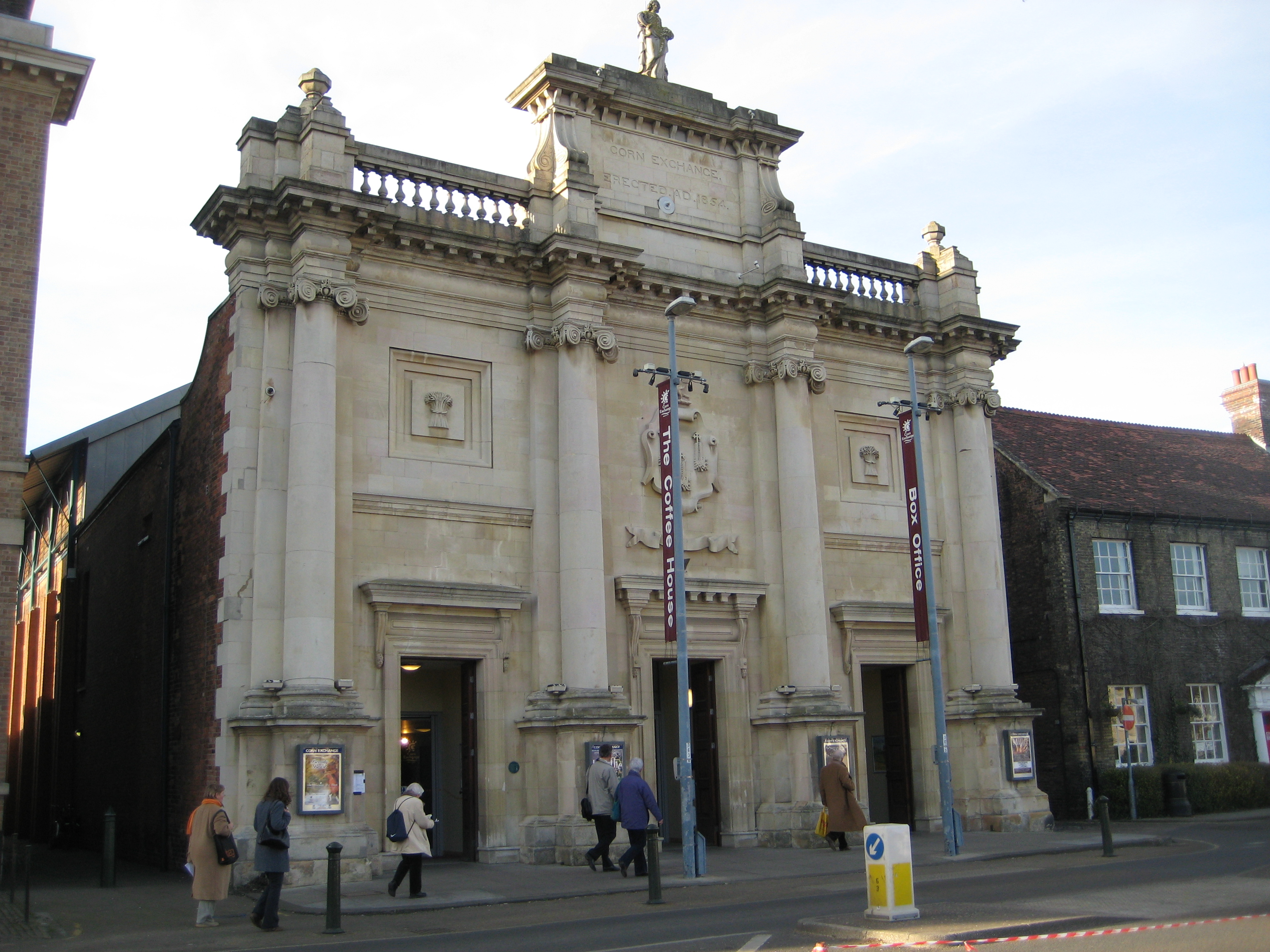 Corn Exchange, King's Lynn